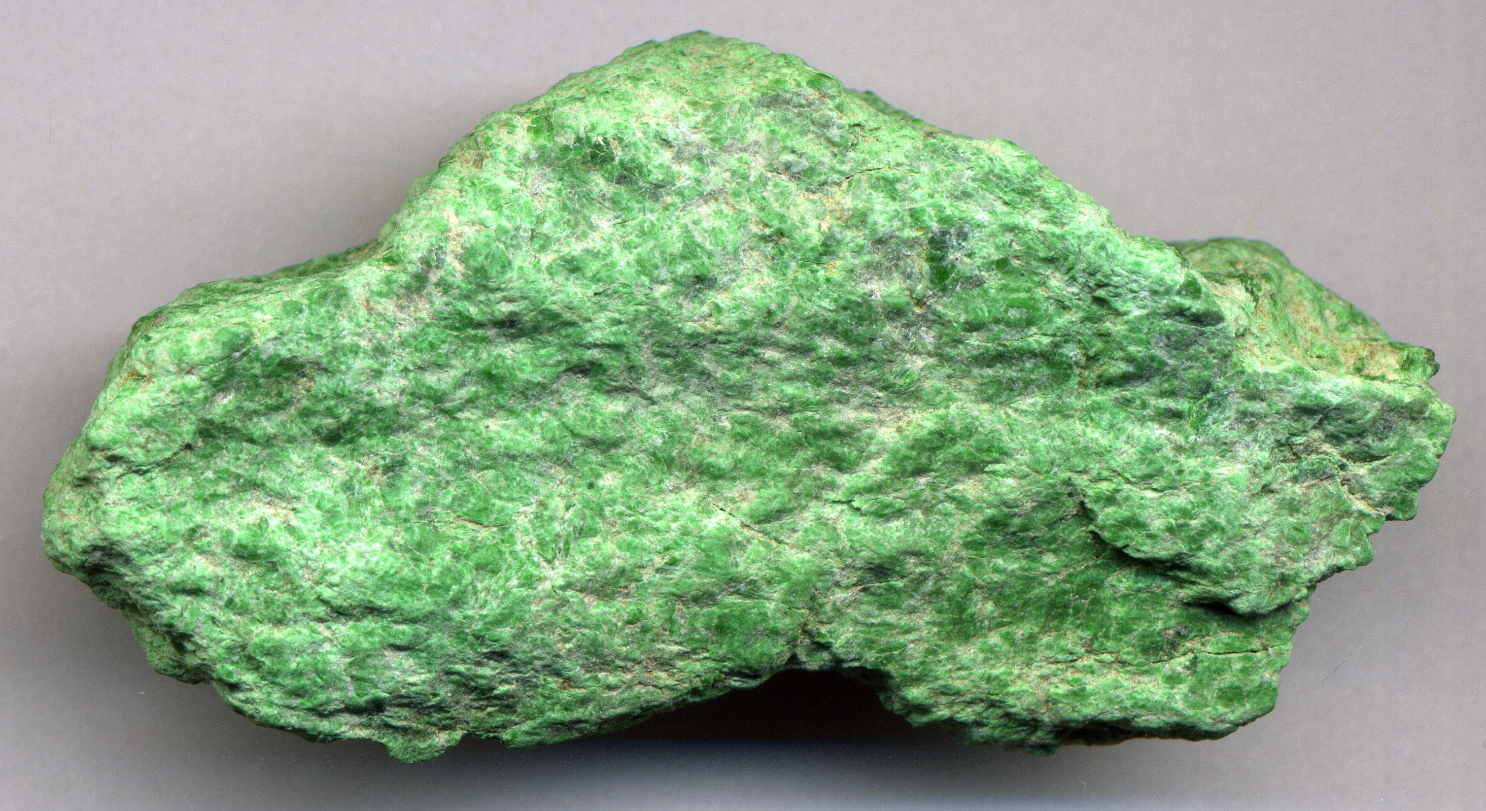 Chromian jade from the Jurassic of Burma. (6.05 cm across at its widest) This gorgeous green rock is chromian jade (maw sit sit), a complex metamorphic rock dominated by chromian jadeite pyroxene (Na(Al,Fe,Cr)(SiO3)2 - sodium aluminum iron chromium silicate). This is a high-pressure, low-temperature metamorphite formed at the rim of serpentinized chromiferous mantle peridotite. Geologic unit & age: northeastern Hpakan-Tawmaw Jade Tract, Hpakan Ultramafic Body, Naga-Andaman Ophiolite (= metamorphosed Mesozoic oceanic lithosphere), 147 Ma metamorphic age (late Tithonian, near-latest Jurassic) Locality: attributed to Tawmaw, Myitkyina-Mogaung District, western Kachin State, Indo-Burma Range, northern Burma